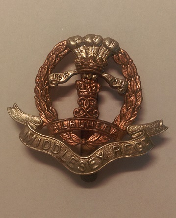 Photo of Middlesex Regiment Cap Badge from personal collection